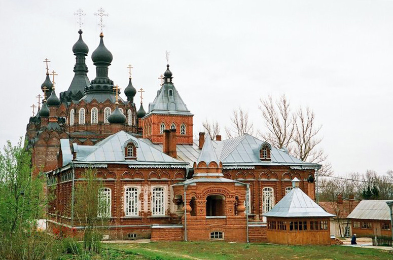 Shamordino. Kazanskaya Amvrosievskaya Pustyn (Monastery)